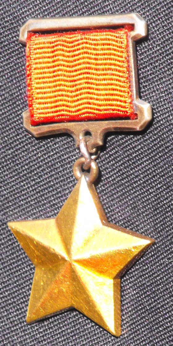 The Gold Star of the Hero of the Soviet Union on Arnold Meri